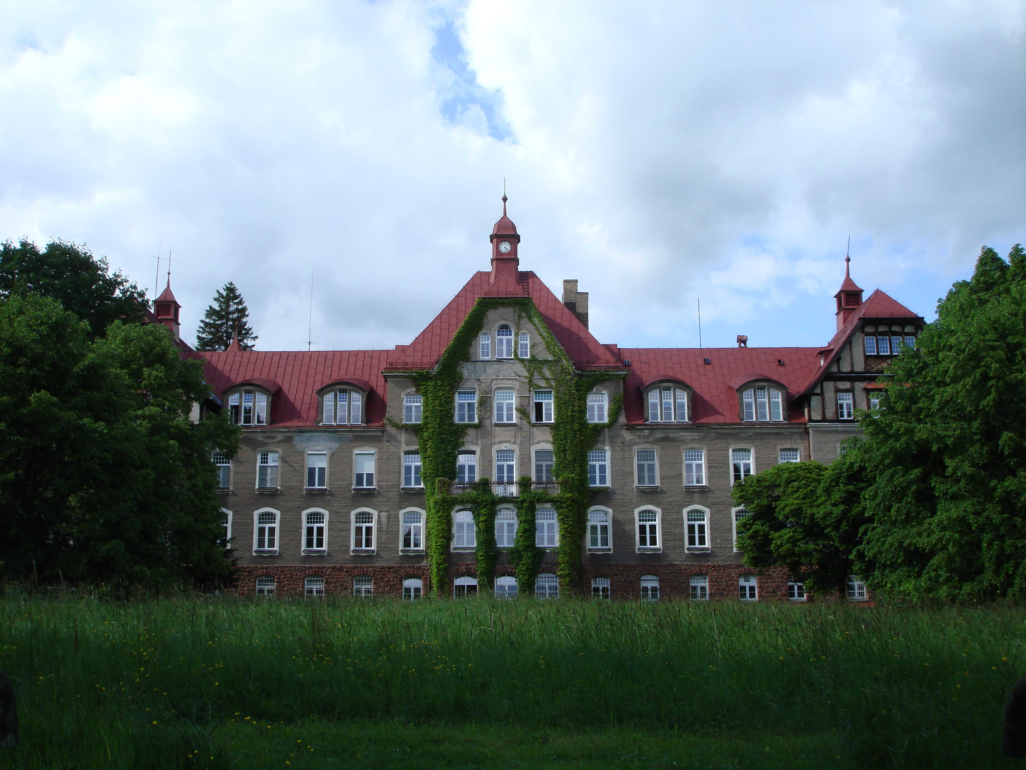 Kamienna Góra, Rehabilitation hospitals